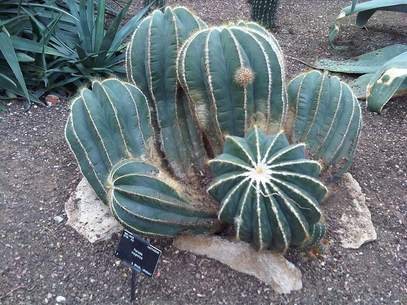 Parodia magnifica at Kew Gardens, England.